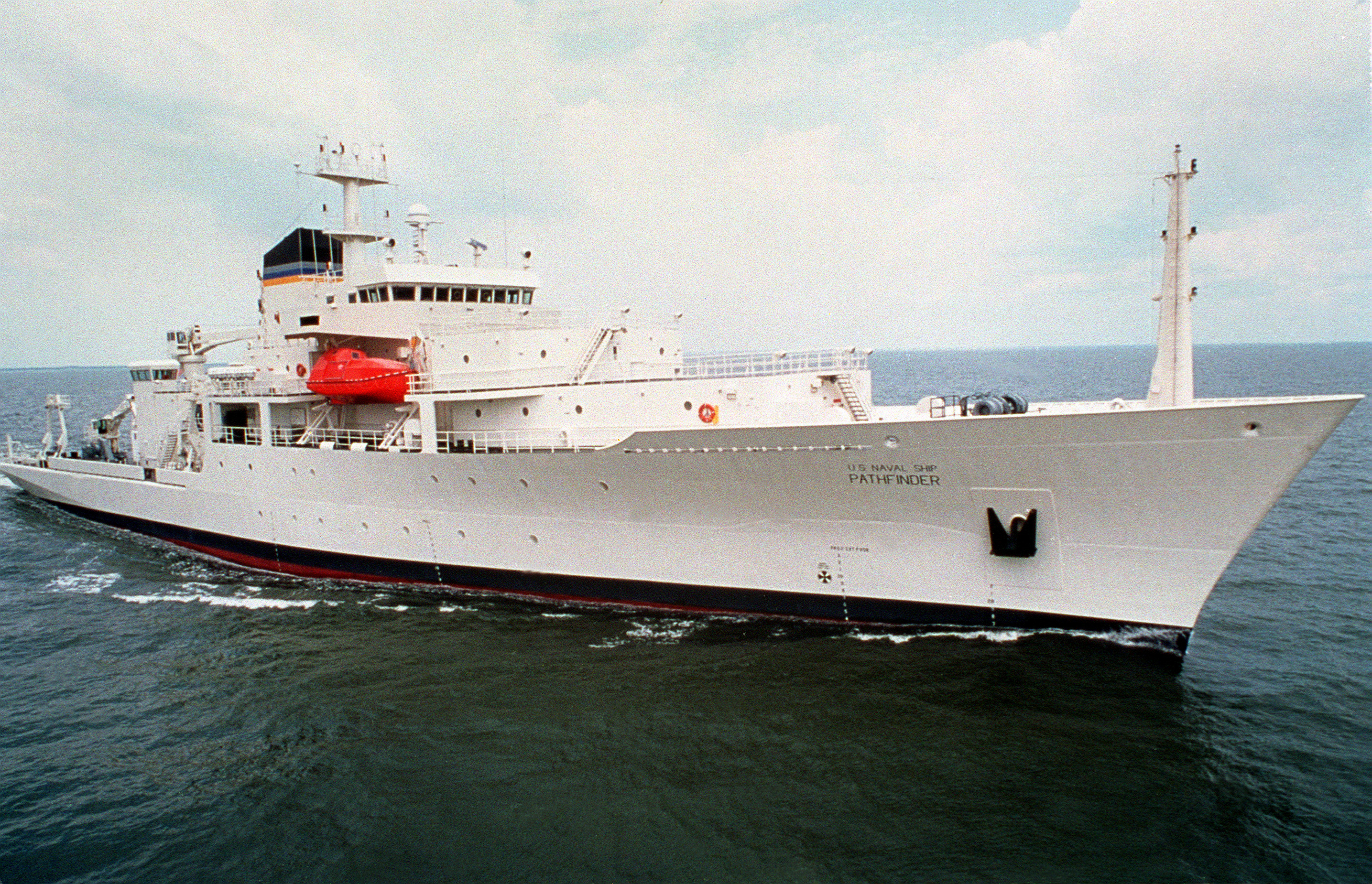 The U.S. Military Sealift Command survey ship USNS Pathfinder (T-AGS-60) underway on builder's acceptance trials in the Gulf of Mexico on 19 September 1994.